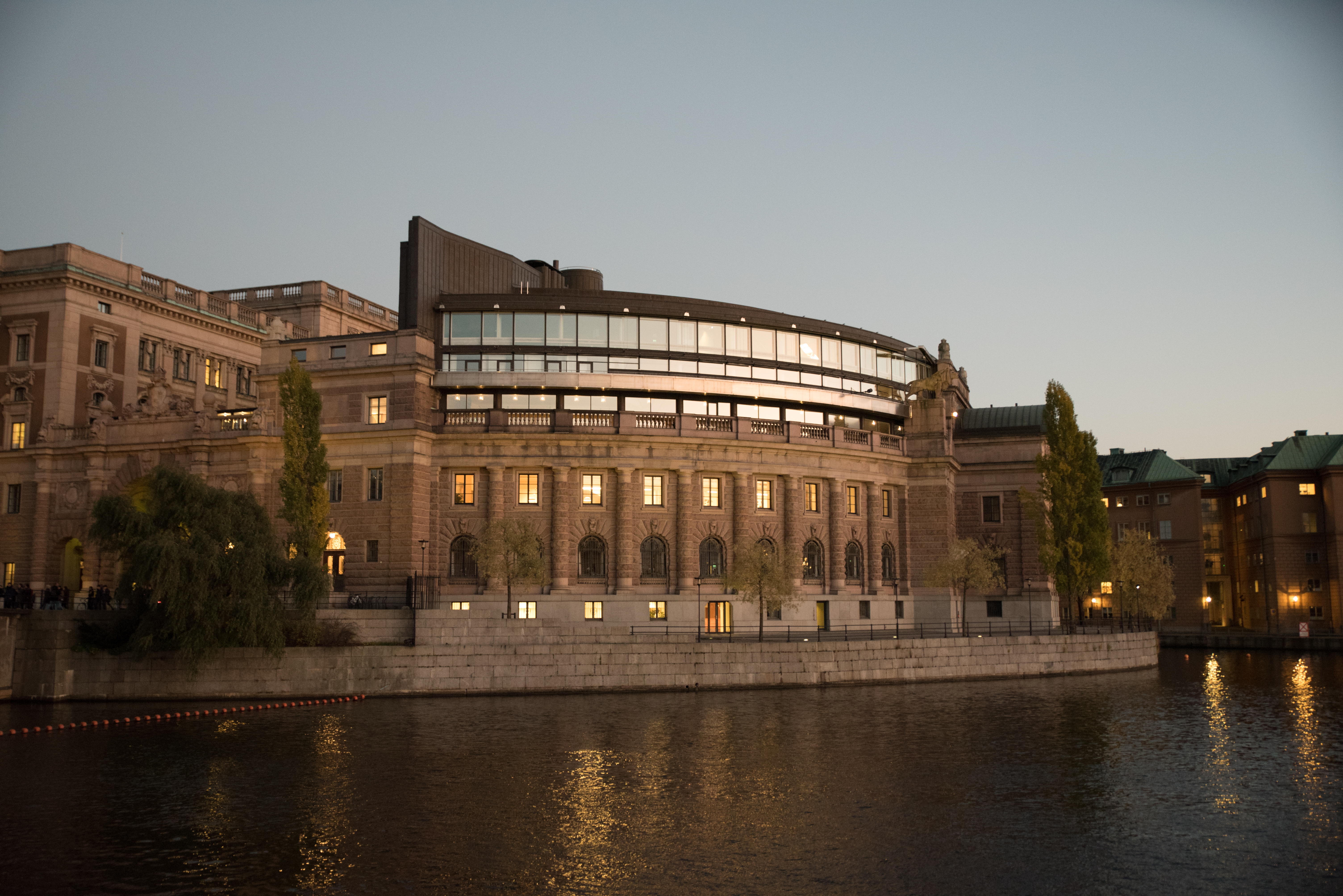 City of Stockholm